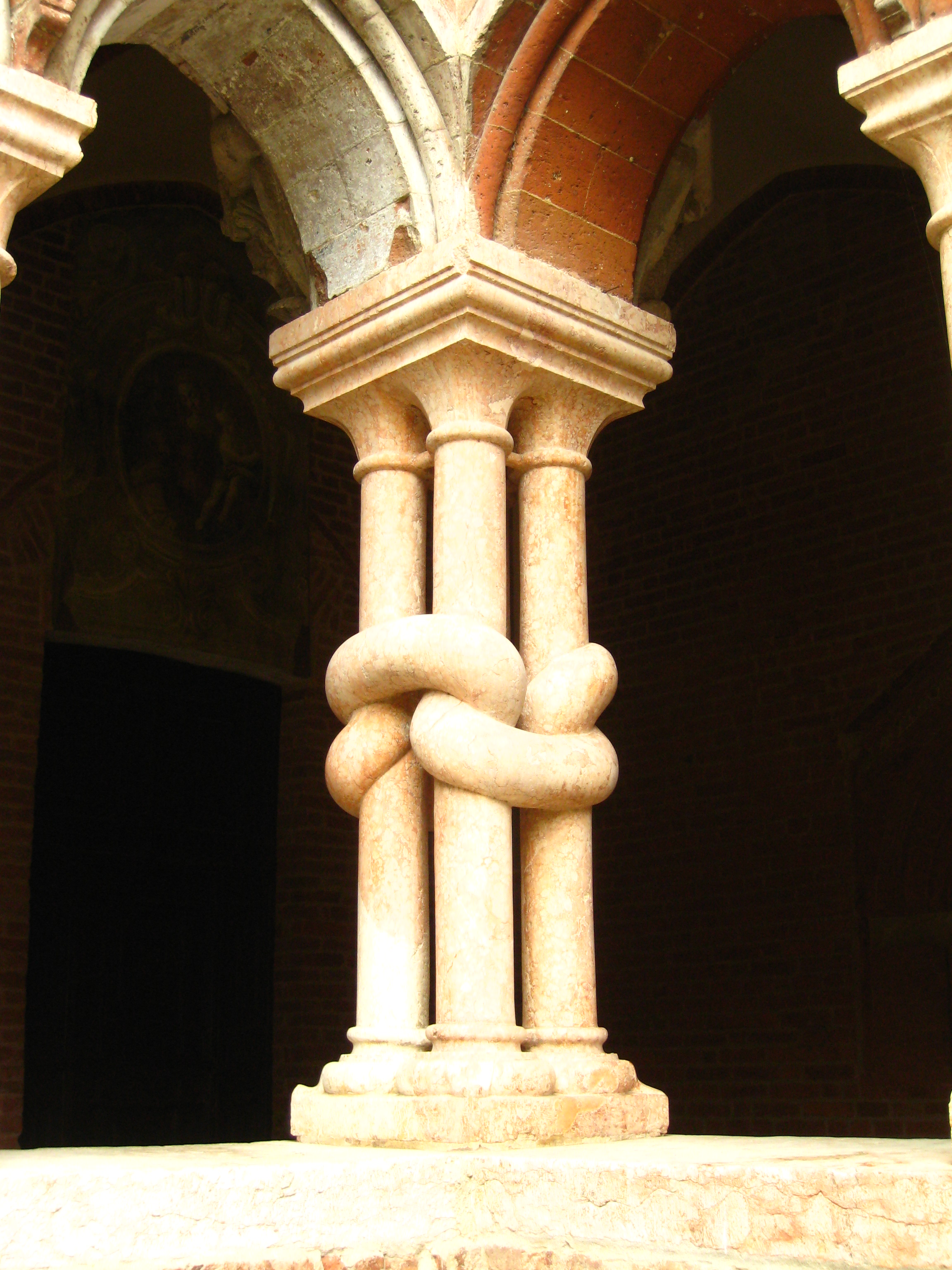 Italy - Abbazia di Chiaravalle - Piacenza